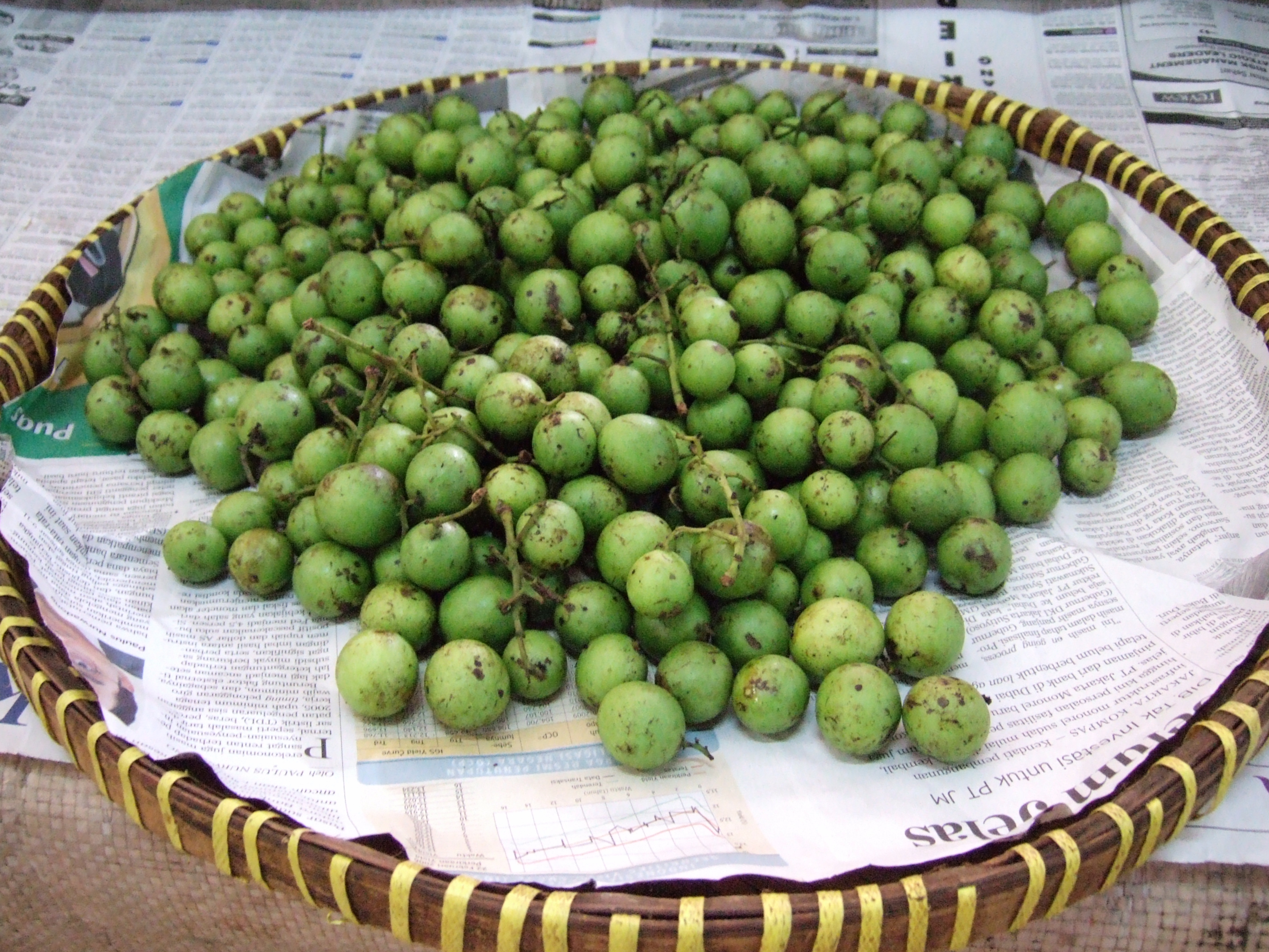 Bouea macrophylla young fruit